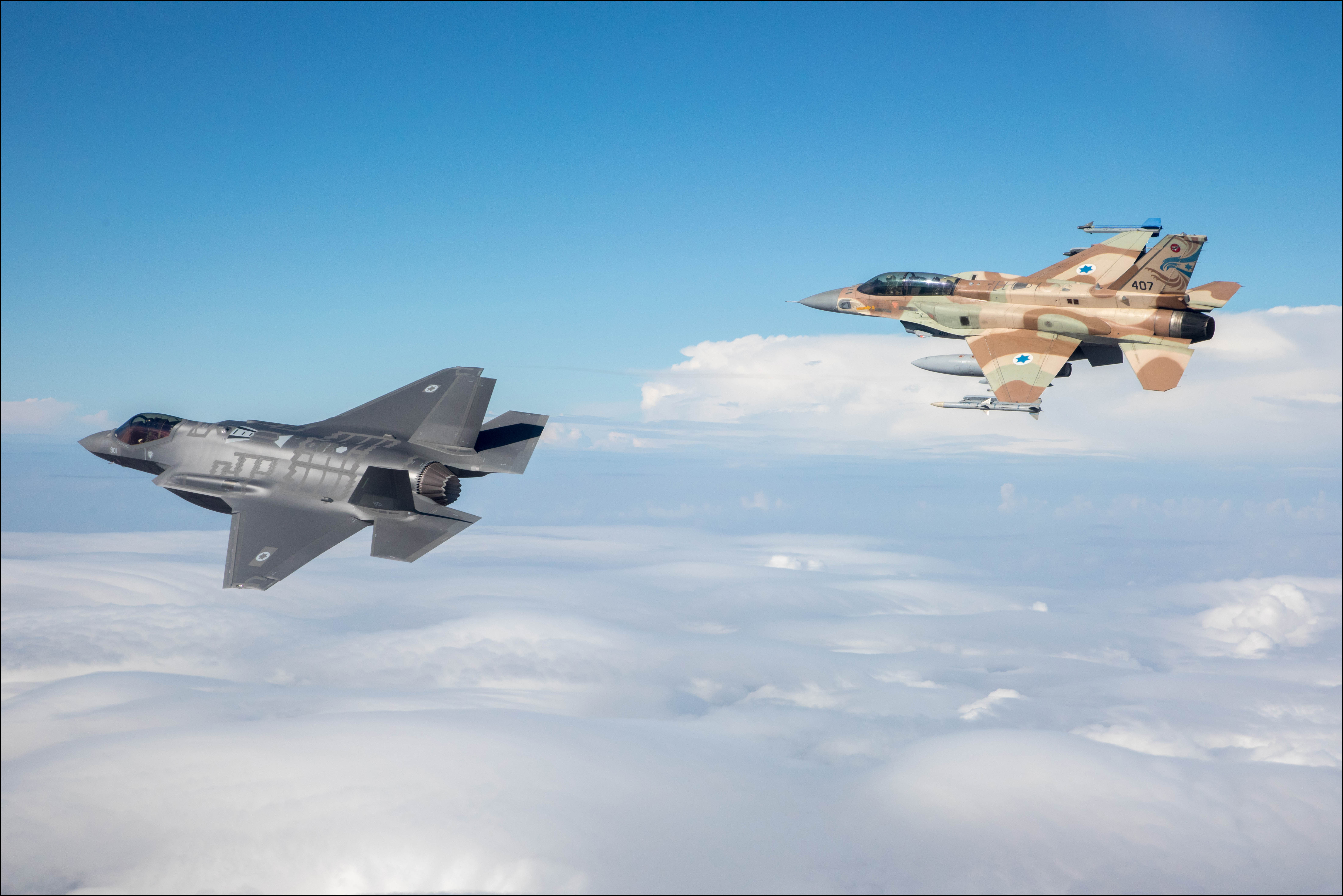 The "Adir" jets first flight in Israel. Pictured: "Adir" jet and F-16I "Sufa". Photo by: Maj. Ofer